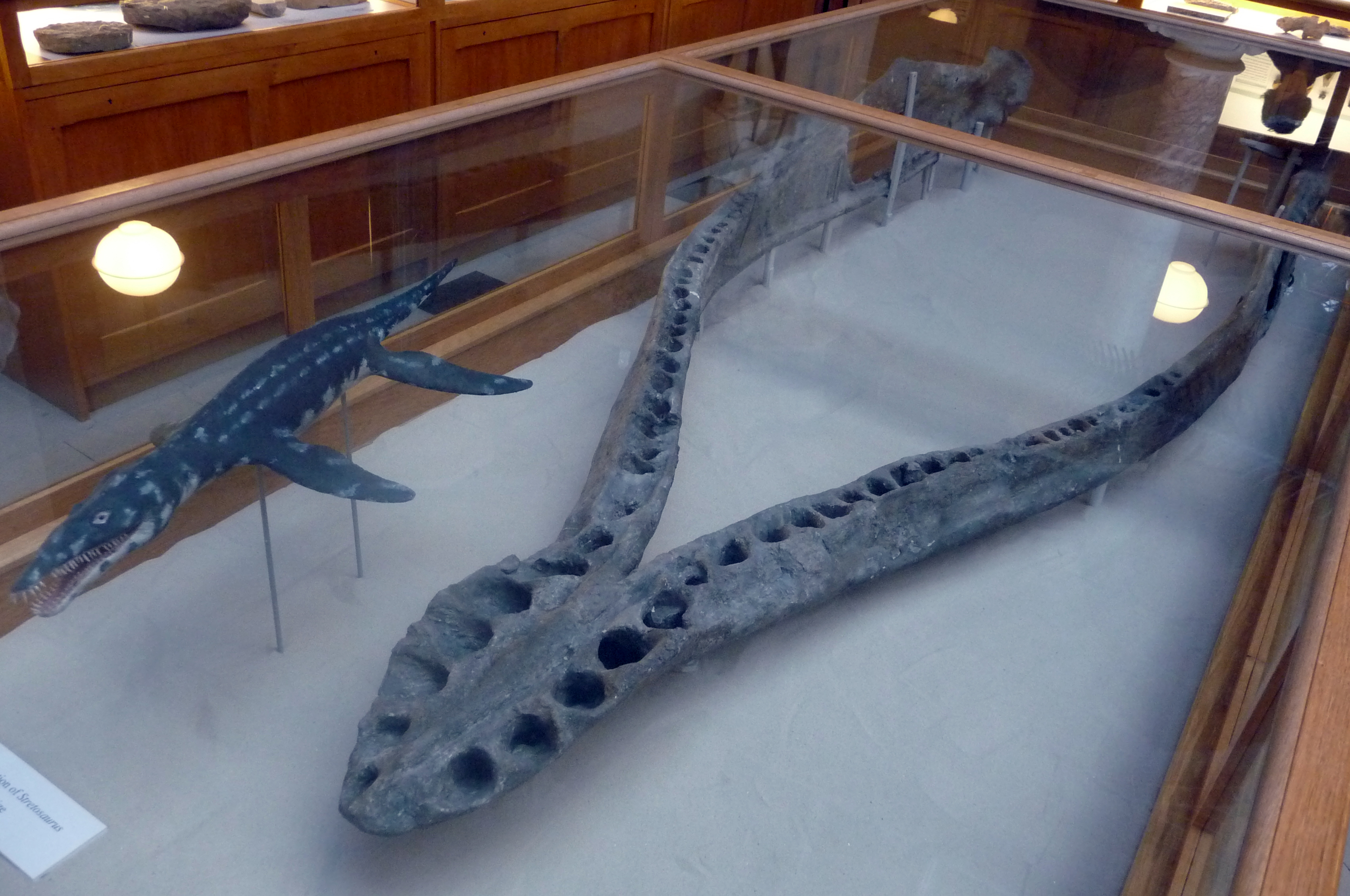 Pliosaurus macromerus jaw, Natural History Museum